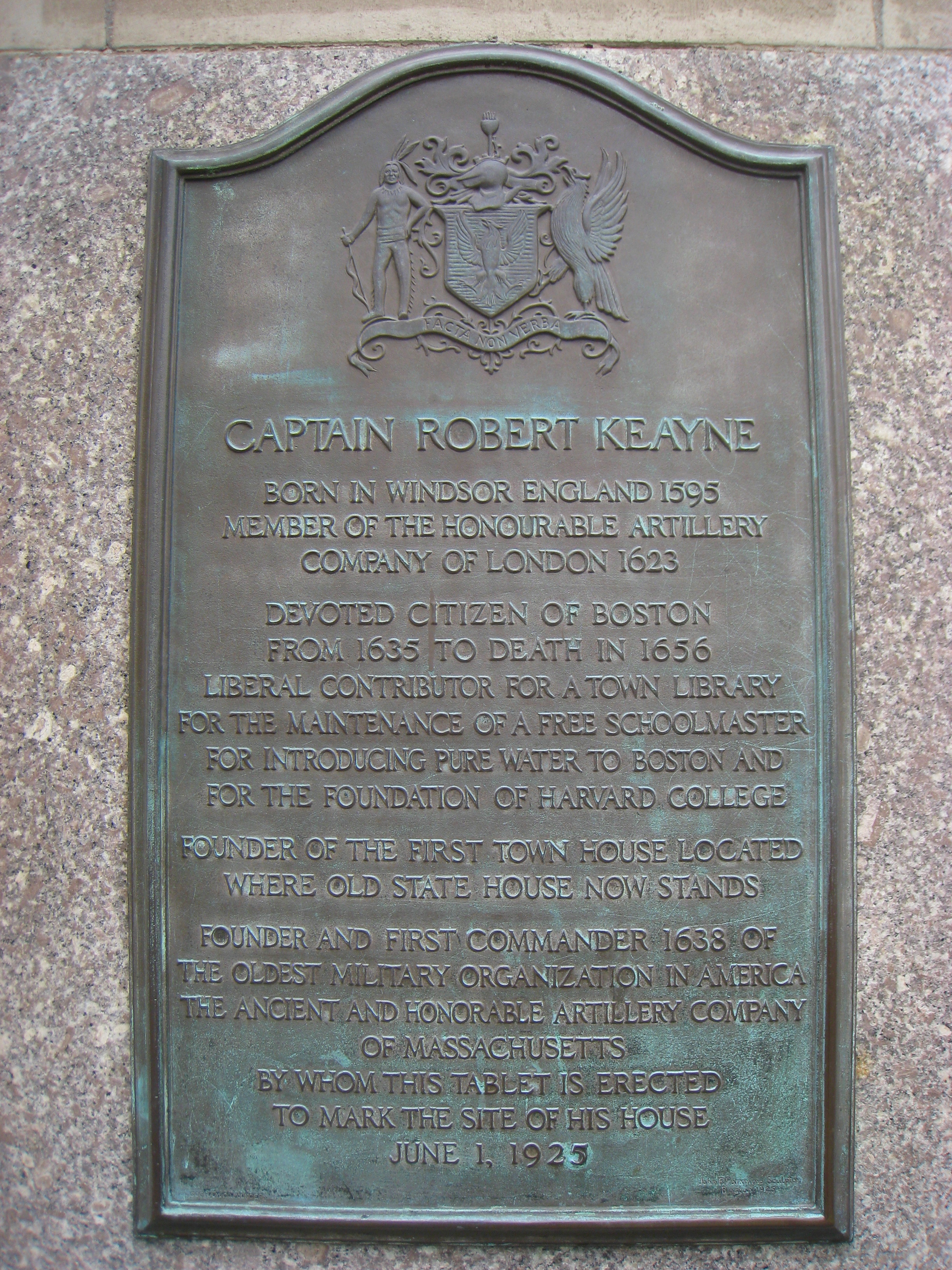 Plaque commemorating Captain Robert Keanye, Boston, Massachusetts, USA.